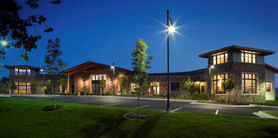 The North Park Library at night